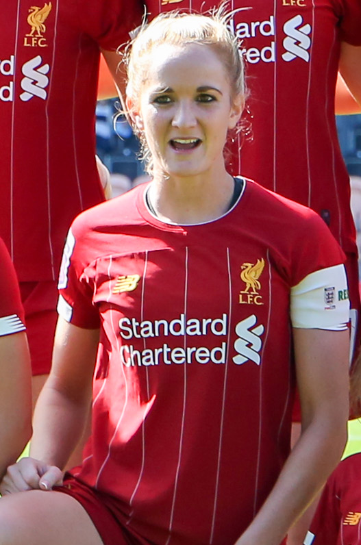 2019–20 FA WSL: Tottenham Hotspur FC Women v Liverpool FC Women, 15 September 2019 – Liverpool starting line-up.